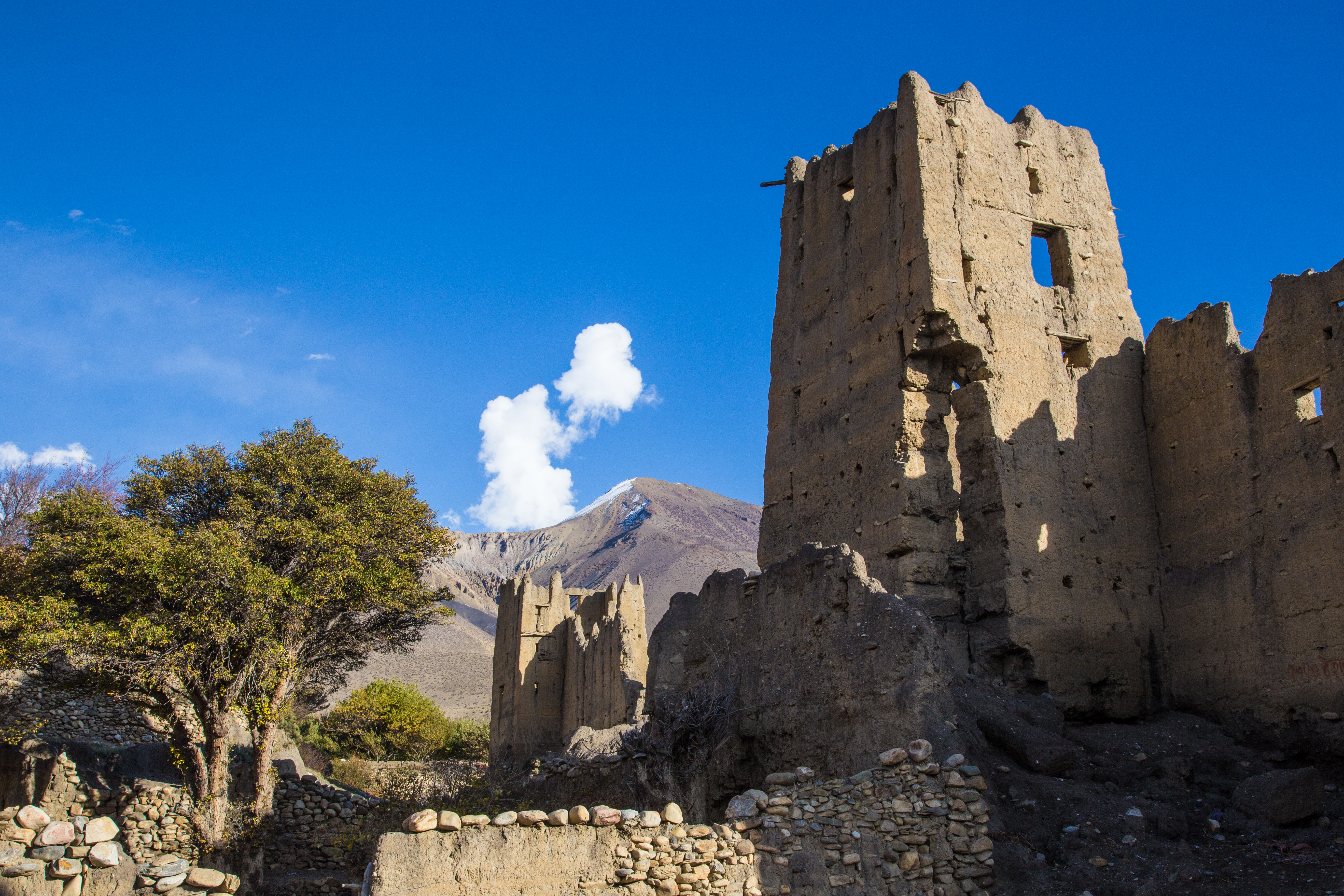 Tangbe (3040 m) is a typical Mustang village with narrow alleys, whitewashed walls, chortens and prayer flags. It is located on a promontory with a good view over the main valley. The ruins of an ancient fortress have become a silent witness of history, when Tangbe was on a major trade route, especially for salt, between Tibet and India.